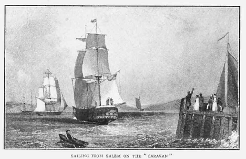 From: Judson the pioneer; Hull, J. M. (John Mervin);Philadelphia : American Baptist Publication Society; 1913